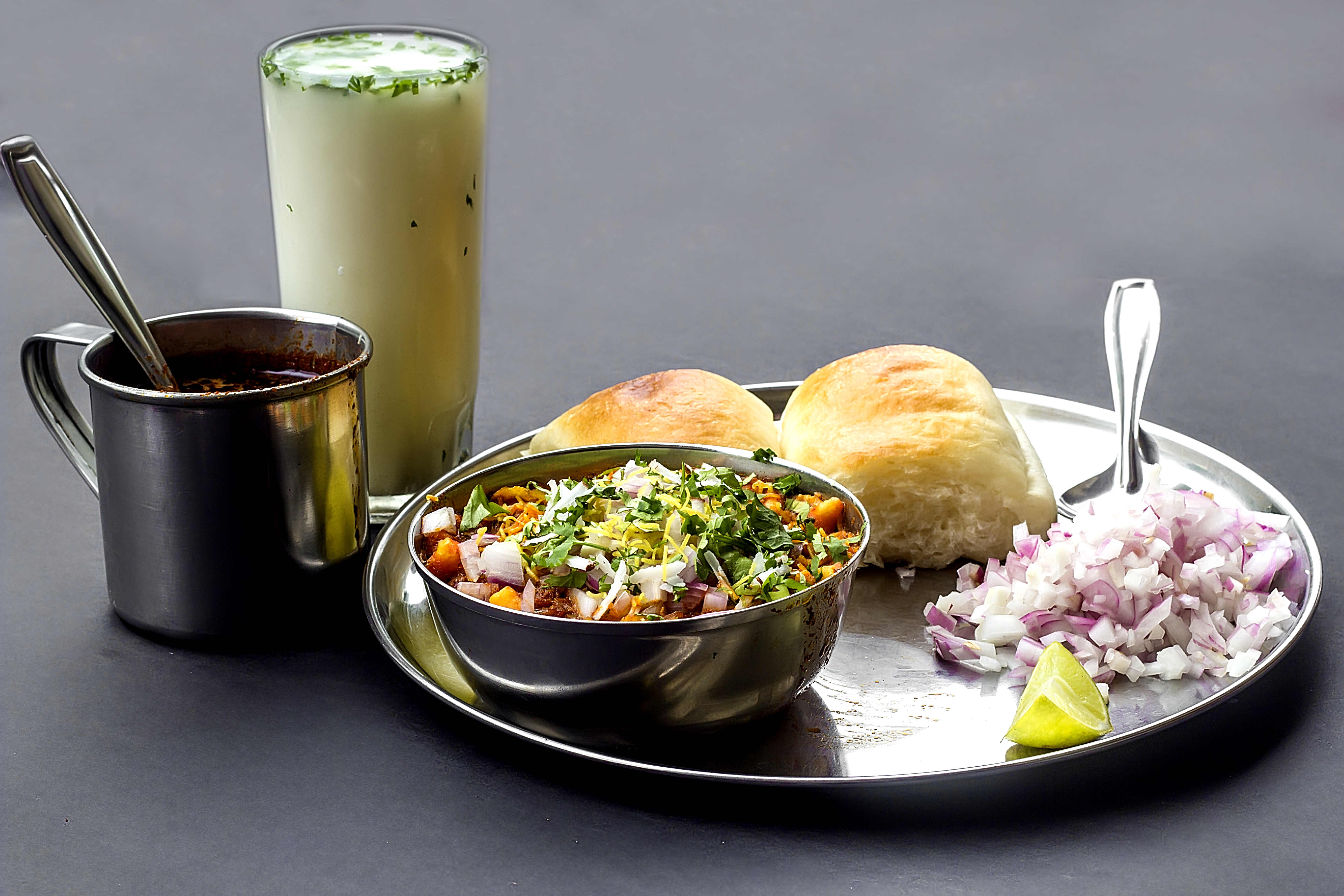 'Misal-Pav' a spicy Maharastrian dish. Spices have attracted the world towards India since the time unknown. The theme Indian cuisine will always be incomplete without this spicy dish.Often served with chilled butter-milk or 'mattha or chhaas or taak'(local language) to nullify the spicy effect of the dish.